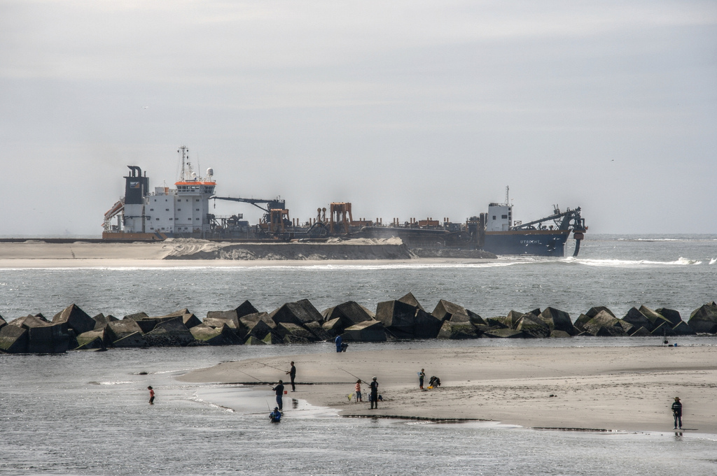 Construction of the Maasvlakte 2 at the end of the Port of Rotterdam. This picture was taken near the site of the E.ON powerplant.